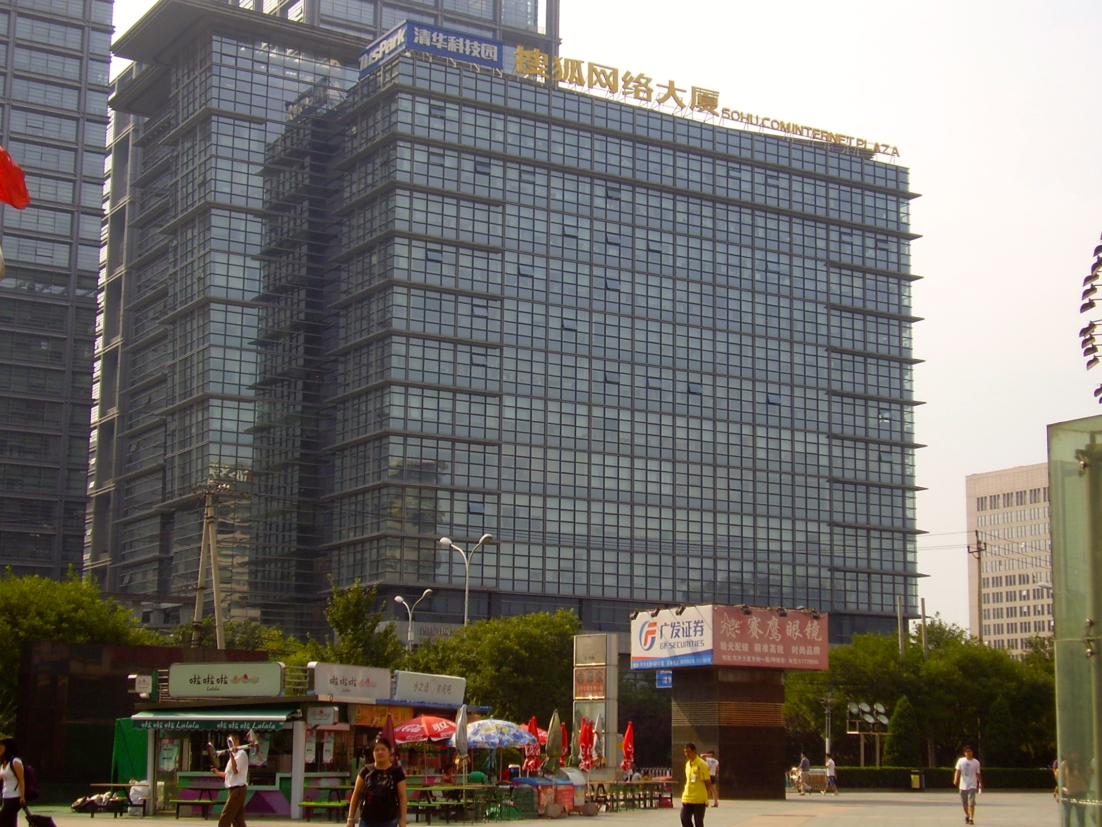 Internet Plaza (S: 搜狐网络大厦, T: 搜狐網絡大廈, P: Sōuhú Wǎngluò Dàshà) - No.1 Park, Zhongguancun East Road (Zhongguancun Donglu), Haidian District, Beijing 100084, PRC